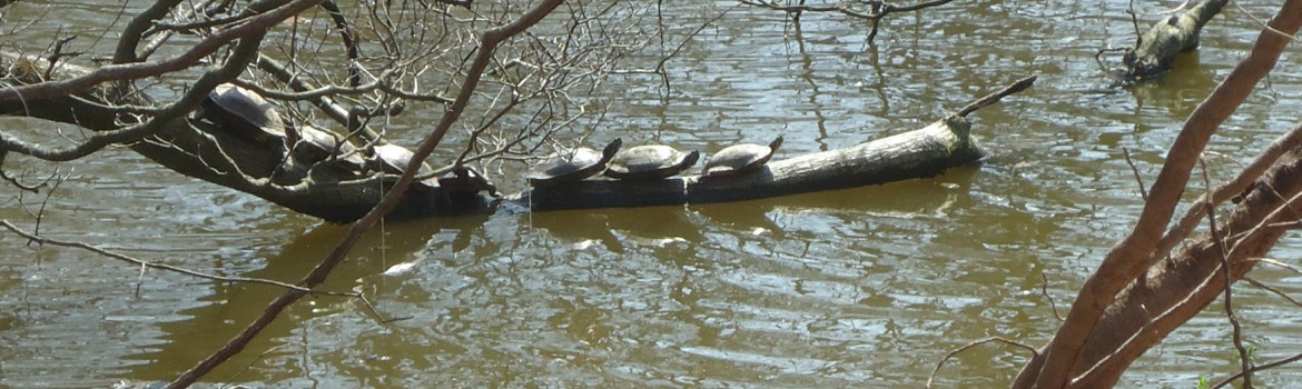 Echo Lake, in Echo Lake Park in Mountainside, New Jersey. Turtles on a log.